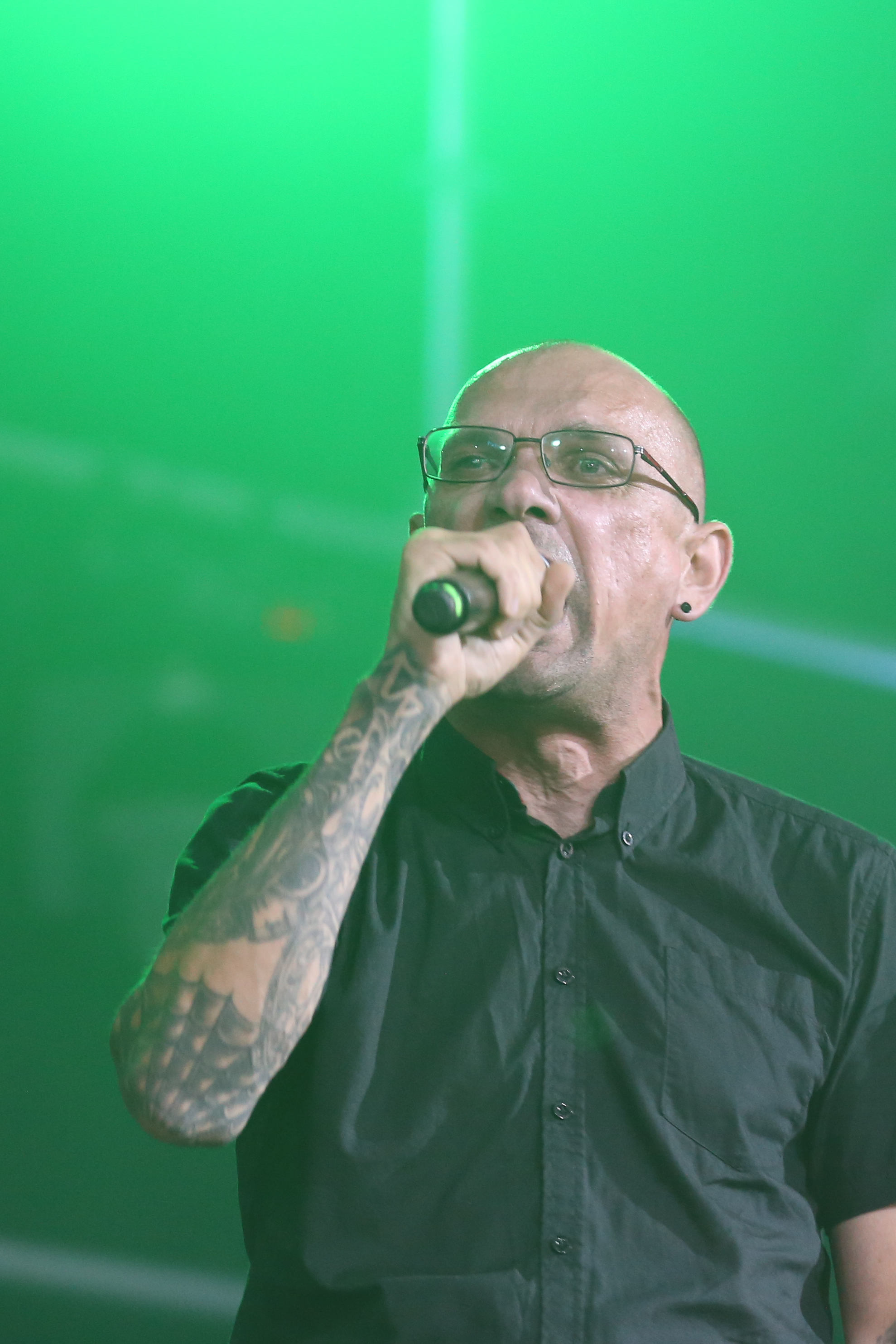 Podwórkowi Chuligani at Przystanek Woodstock in 2017.